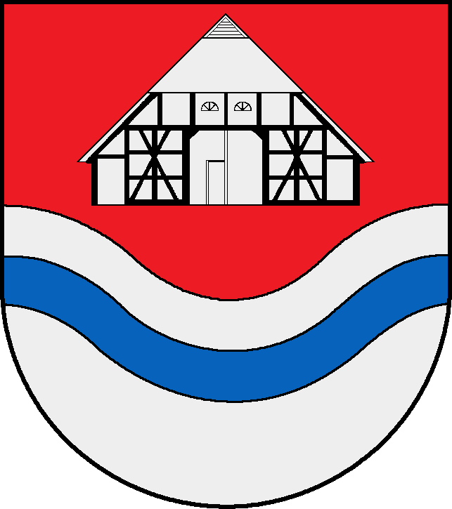 Coat of arms of the municipality Rausdorf in Schleswig-Holstein, Germany.